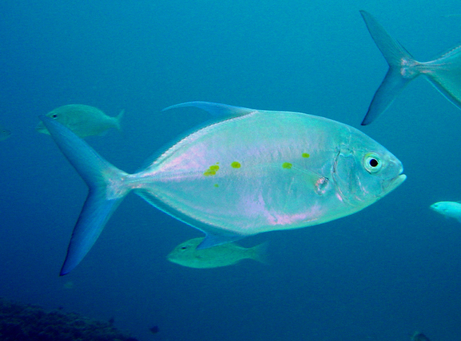 Yellow-spotted trevally (Carangoides orthogrammus) Image ID: reef0974, NOAA's Coral Kingdom Collection Location: Guam, Mariana Islands